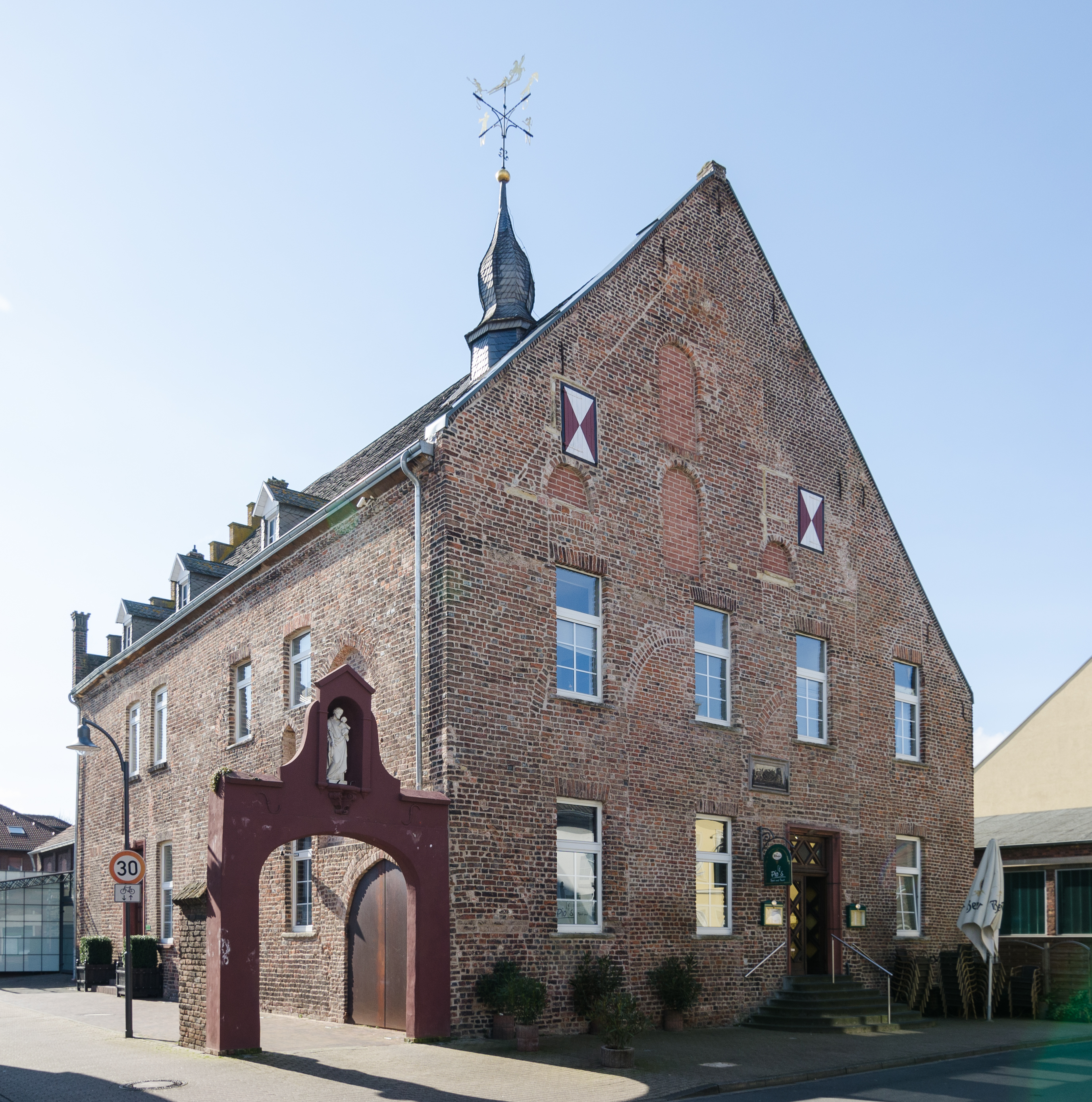 Rheinberg (North Rhine-Westphalia, Germany) – “Kamper Hof” (former house of the Kamp Monastery)